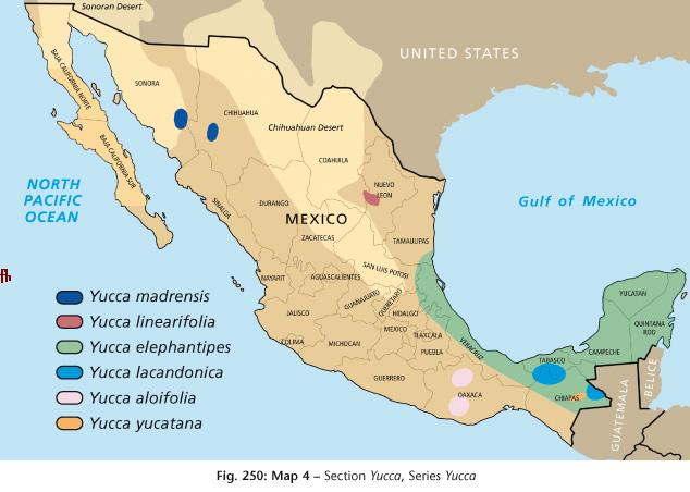 Flora distribution map of Yucca species in Mexico.